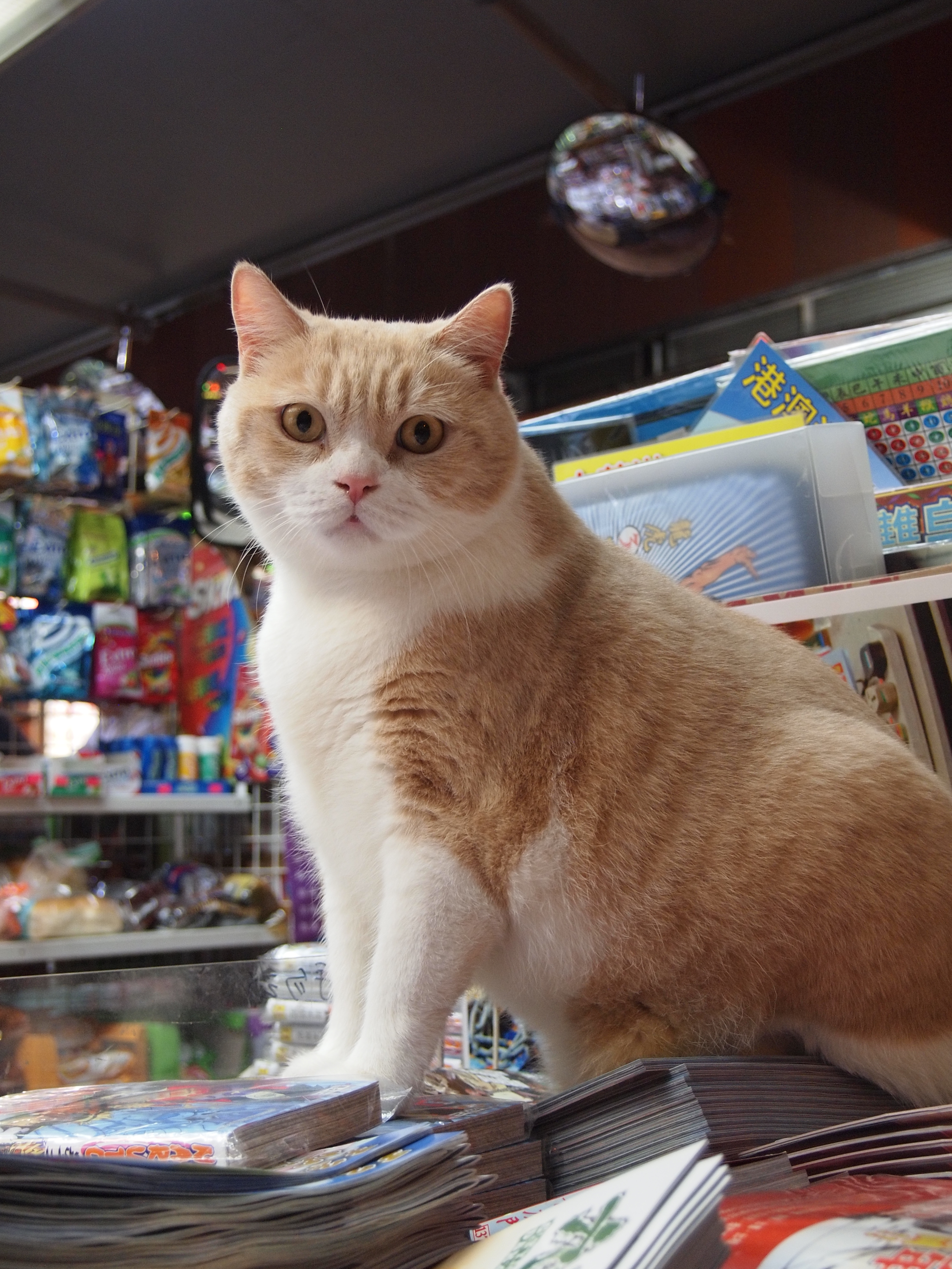 Tsim Tung Brother Cream 中文（香港）: 忌廉哥在士多 中文（中国大陆）: 忌廉哥在商店